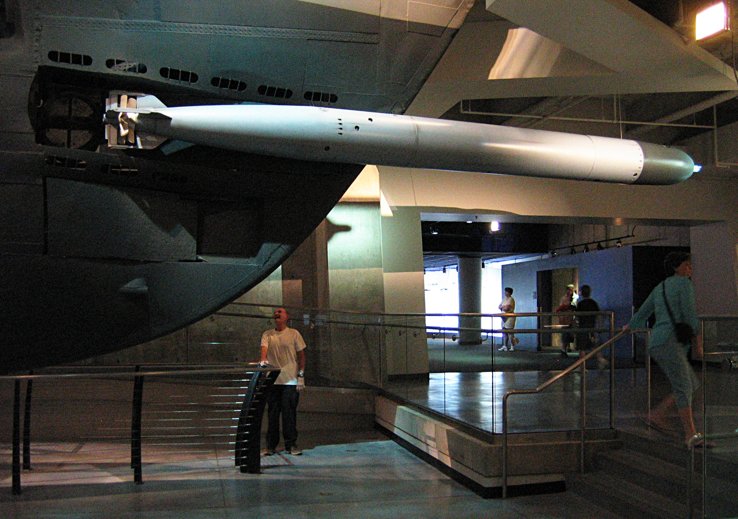 Torpedo displayed with German U-Boat 505, at the Museum of Science and Industry, Chicago.